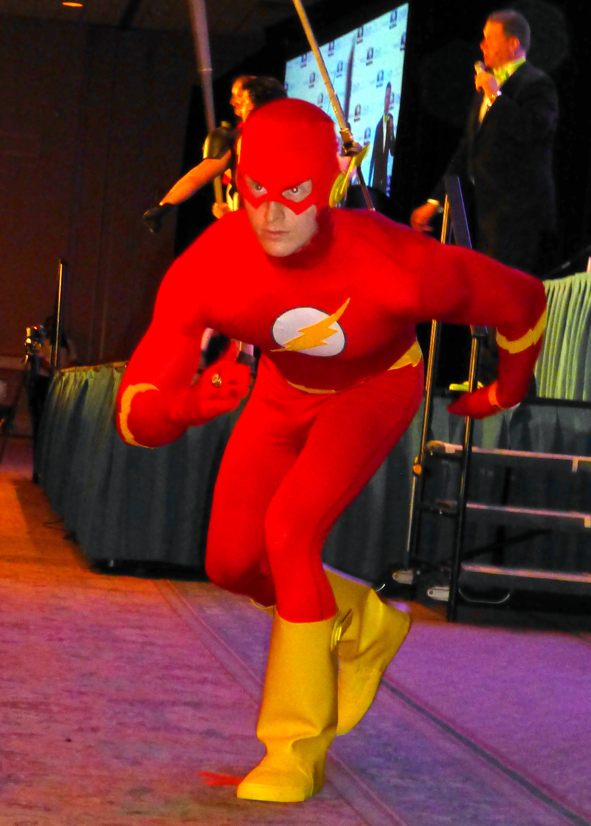 Flash Cosplay at the 2013 Wizard World Chicago.